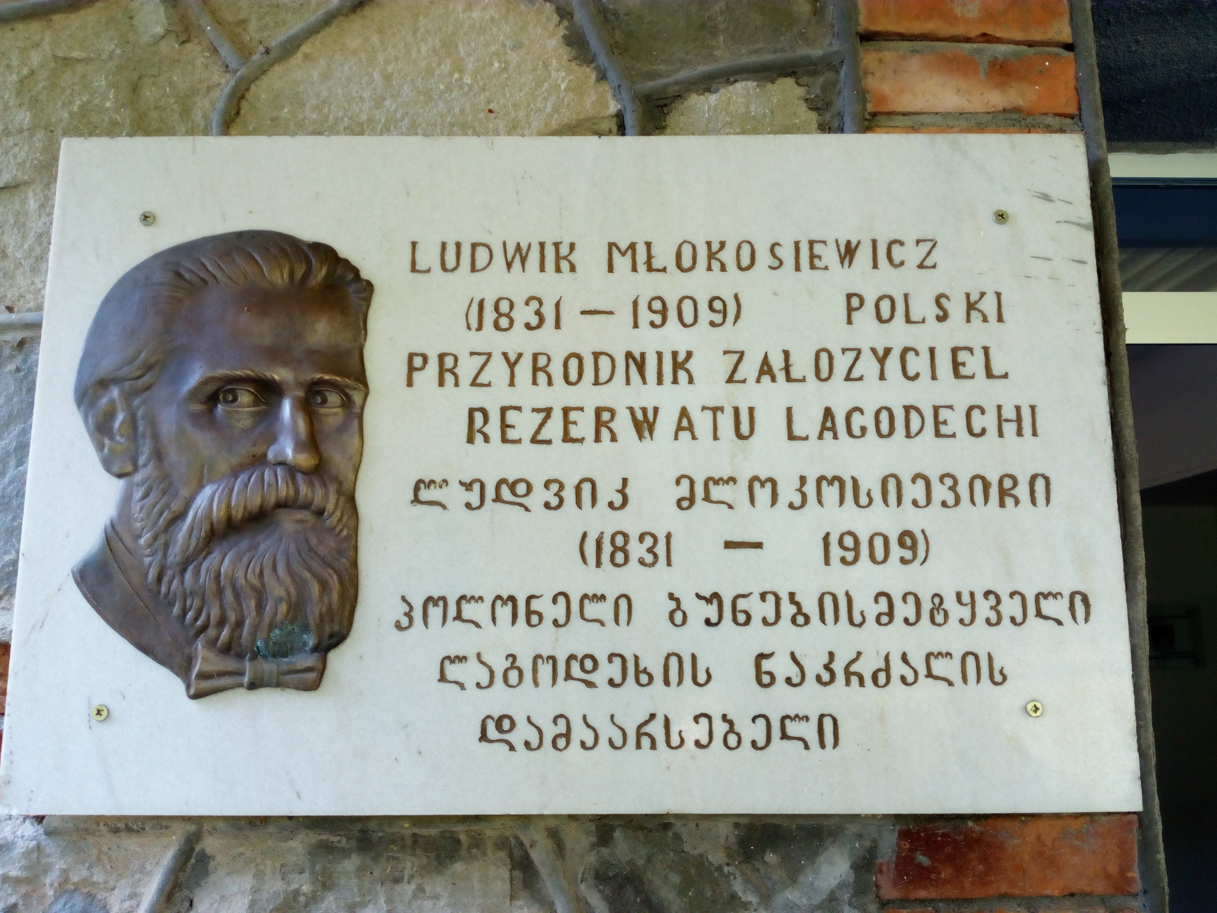 The memorial plate in memory of L. Mlokosiewicz, placed at the building of the Lagodekhi National Park centre